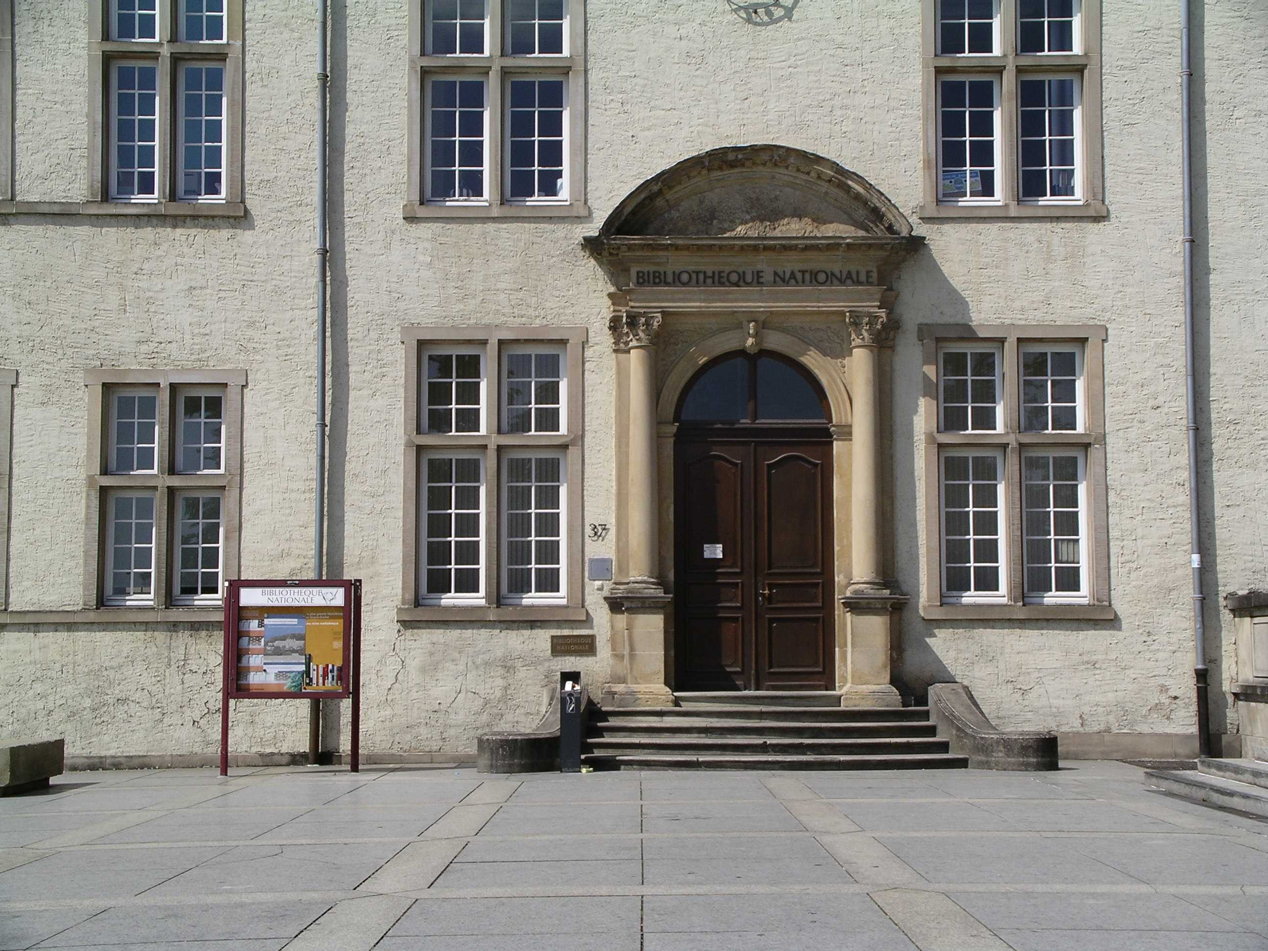 National Library of Luxembourg, Luxembourg City, bvd Roosevelt